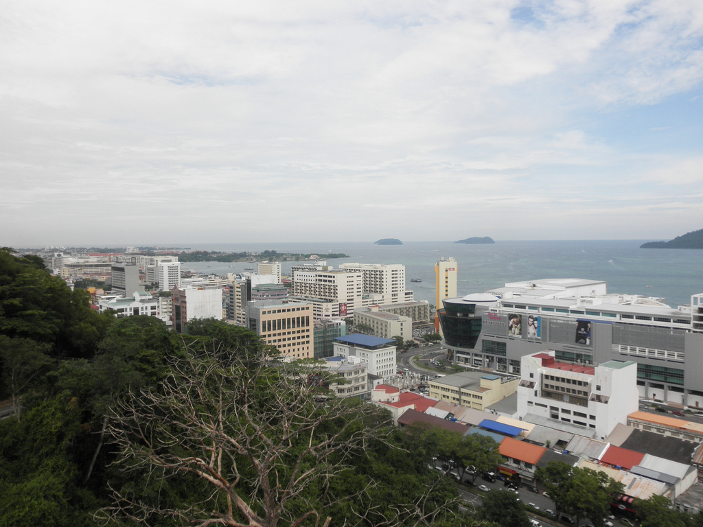 Kota Kinabalu, Sabah, Malaysia, as seen from the rooftop of Habiba Suites.